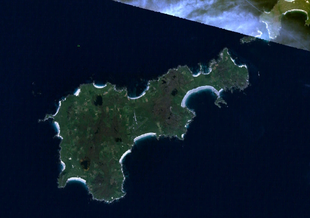 Screengrab of [1] from Nasa World Wind